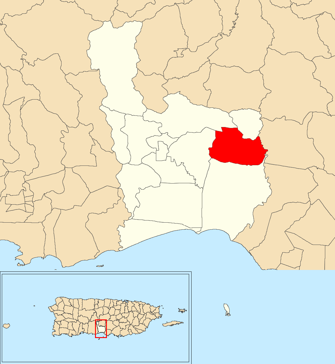 Río Cañas Arriba, Juana Díaz, Puerto Rico locator map